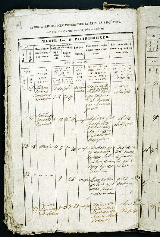 A page of a birth register for Jews with an entry for birth of LL Zamenhof, creator of